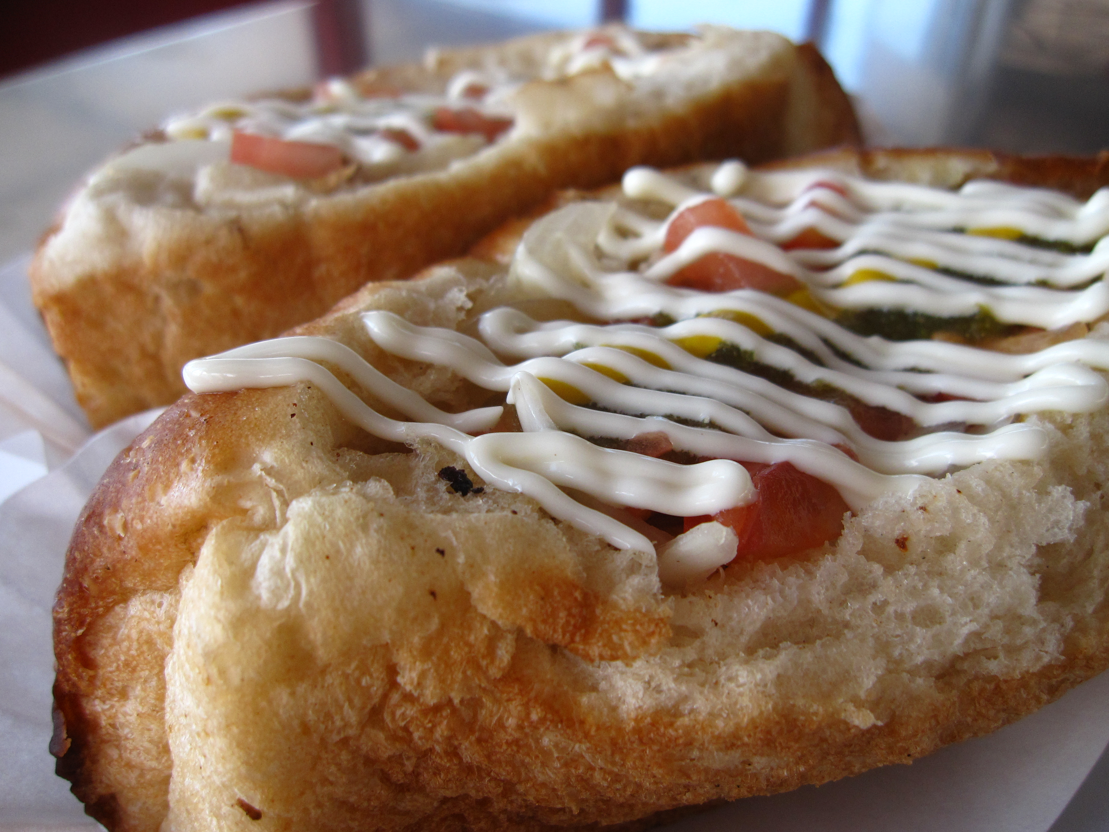 Sonoran dogs at BK Carne Asada and Hot Dogs in Tucson, Arizona.